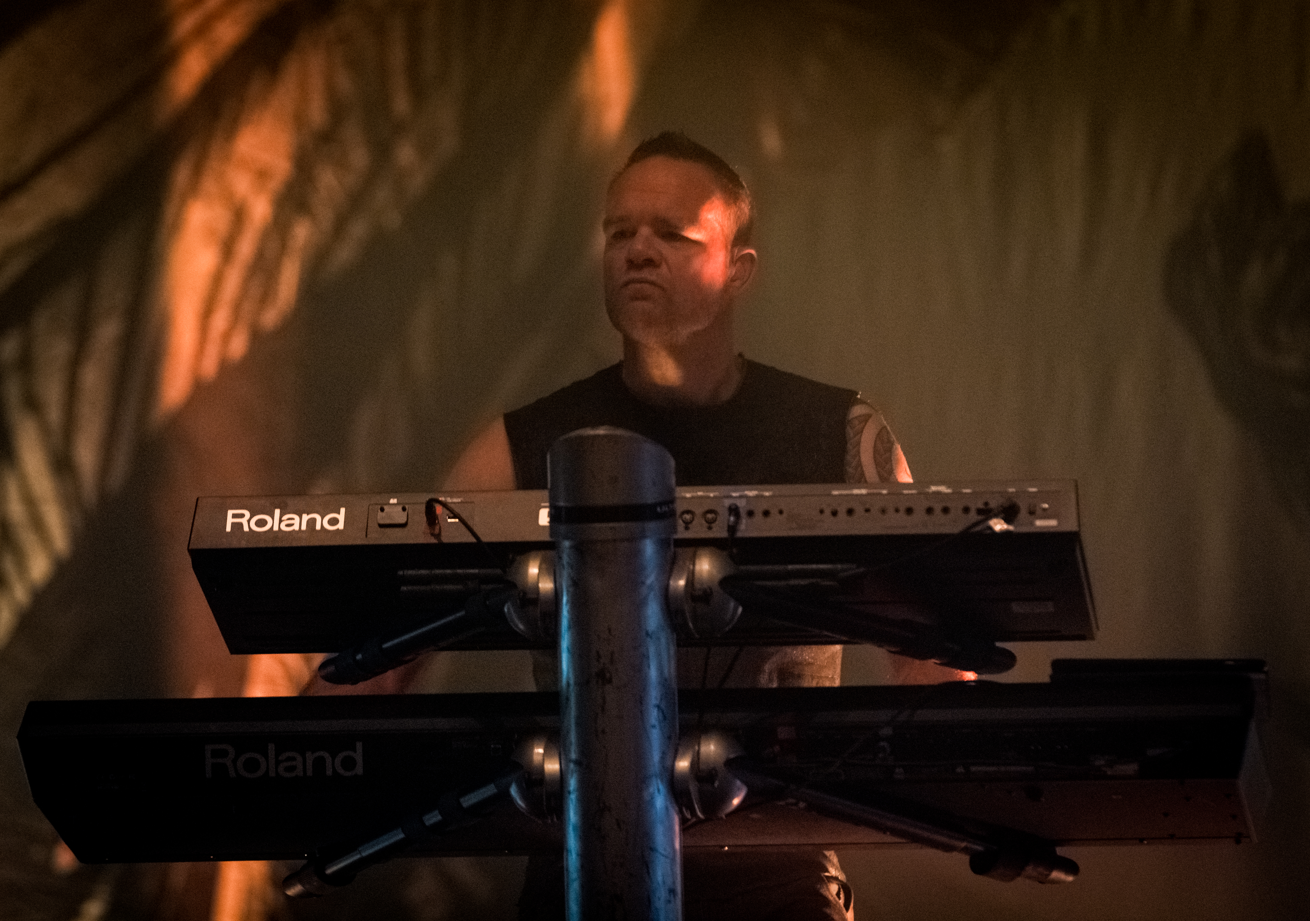 Within Temptation - Wacken Open Air 2015